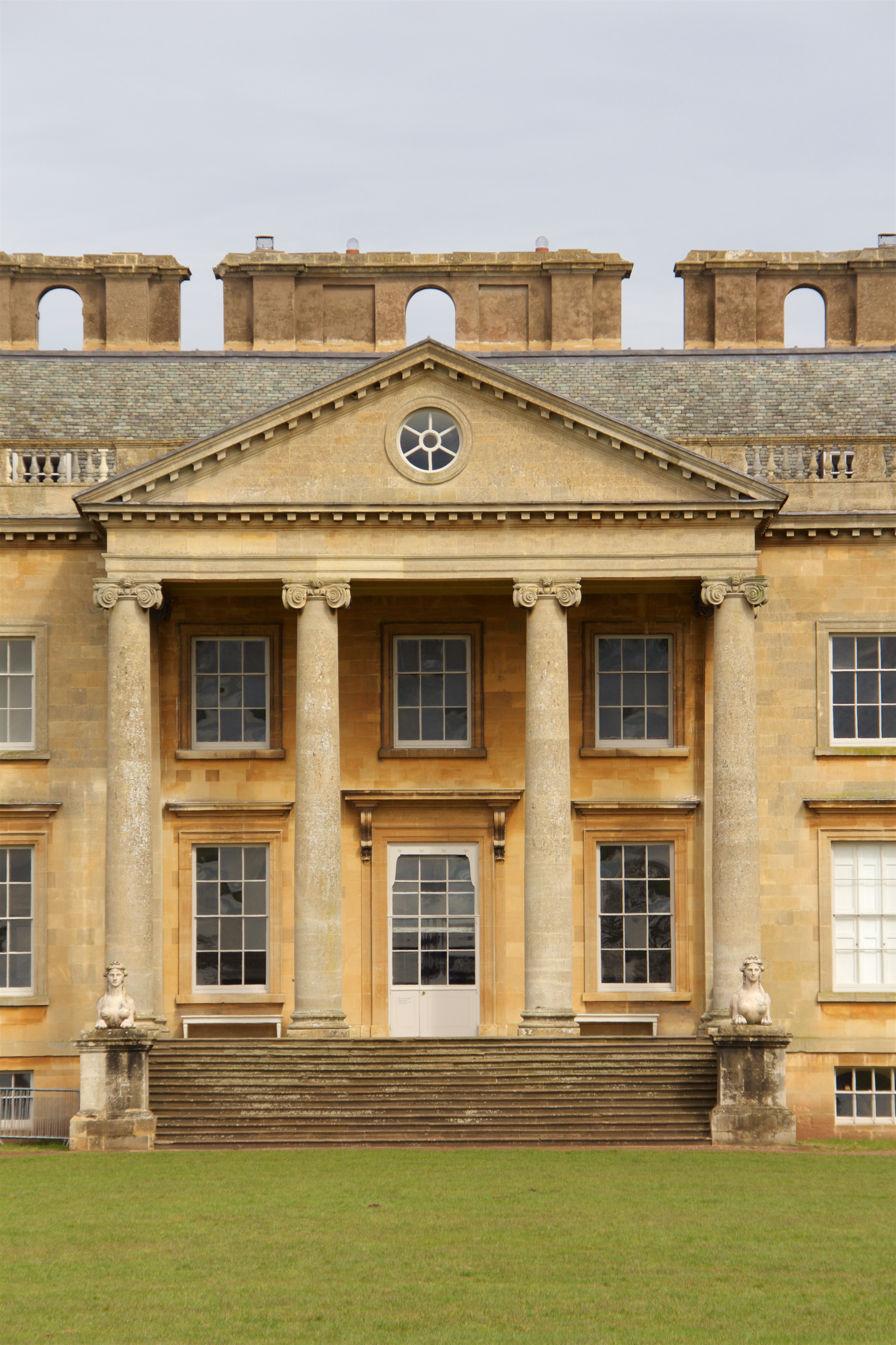 Croome Court, Croome D'Abitot, 2016